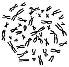 By Ruth Lawson - Otago Polytechnic.